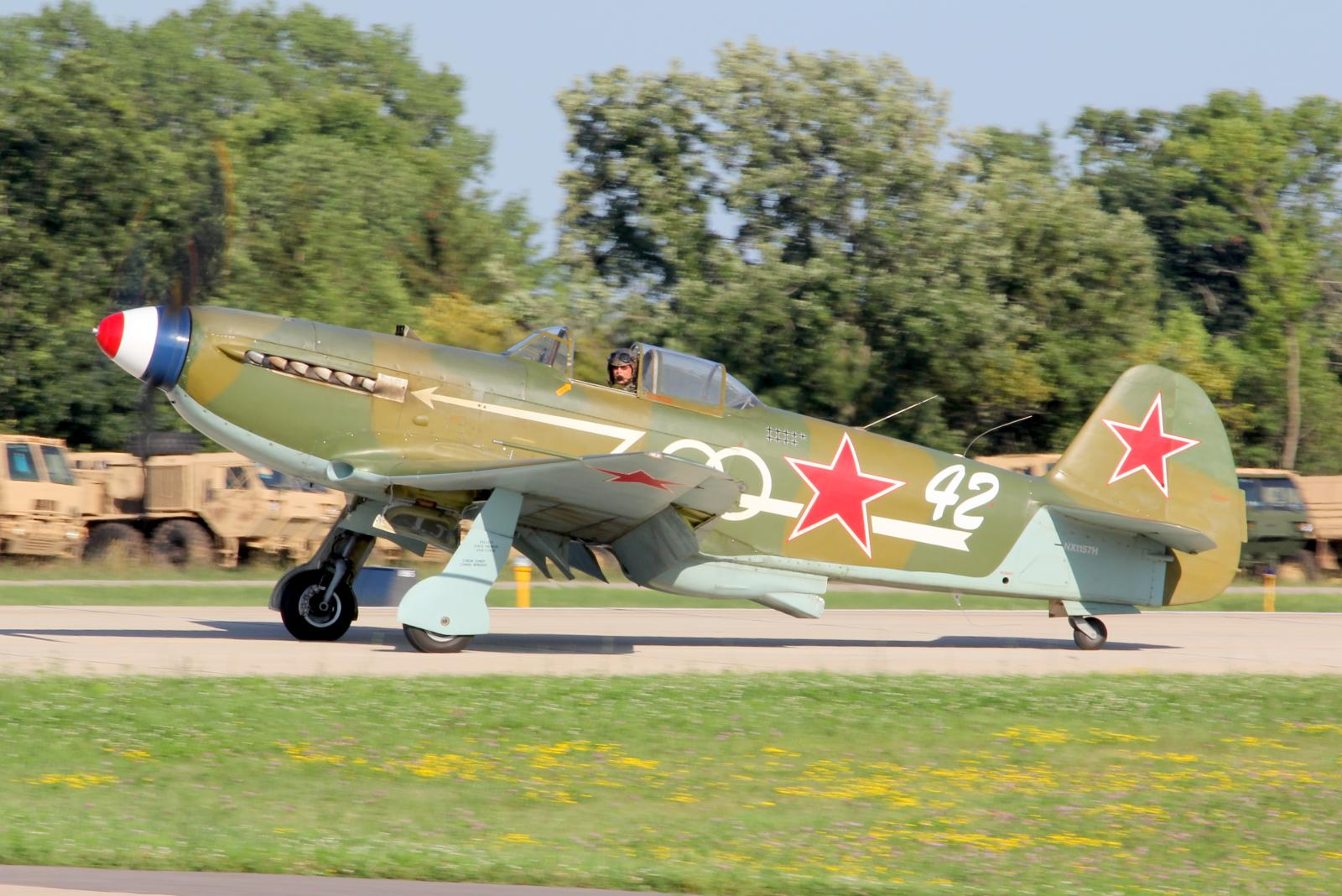 Yakovlev Yak-9U-M (N1157H)